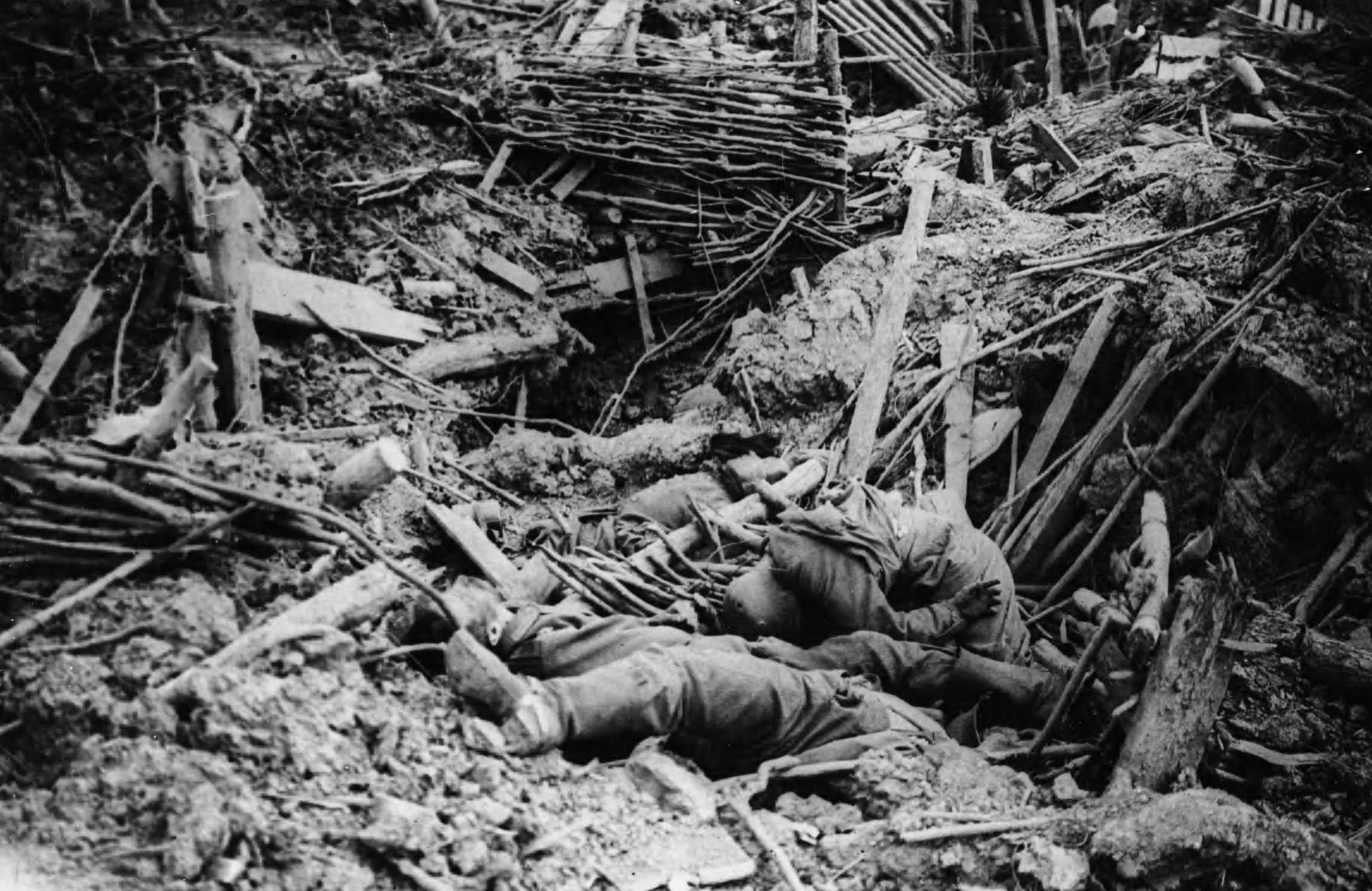 This is a disturbing image of a destroyed German trench. In the foreground the limp bodies of dead German soldiers lie amidst the rubble. It is difficult to distinguish the soldiers from the chaos around them, but four bodies are clearly visible. One man, wearing a helmet, has been pushed forward by the blast and, although dead, appears to crouch forward. The entire scene is a maelstrom of mud, splintered wood and dead bodies.Original reads: 'OFFICIAL PHOTOGRAPHS TAKEN ON THE BRITISH WESTERN FRONT. Smashed up German trench on Messines Ridge with dead.'Photographs from the Haig "Official Photographs" series